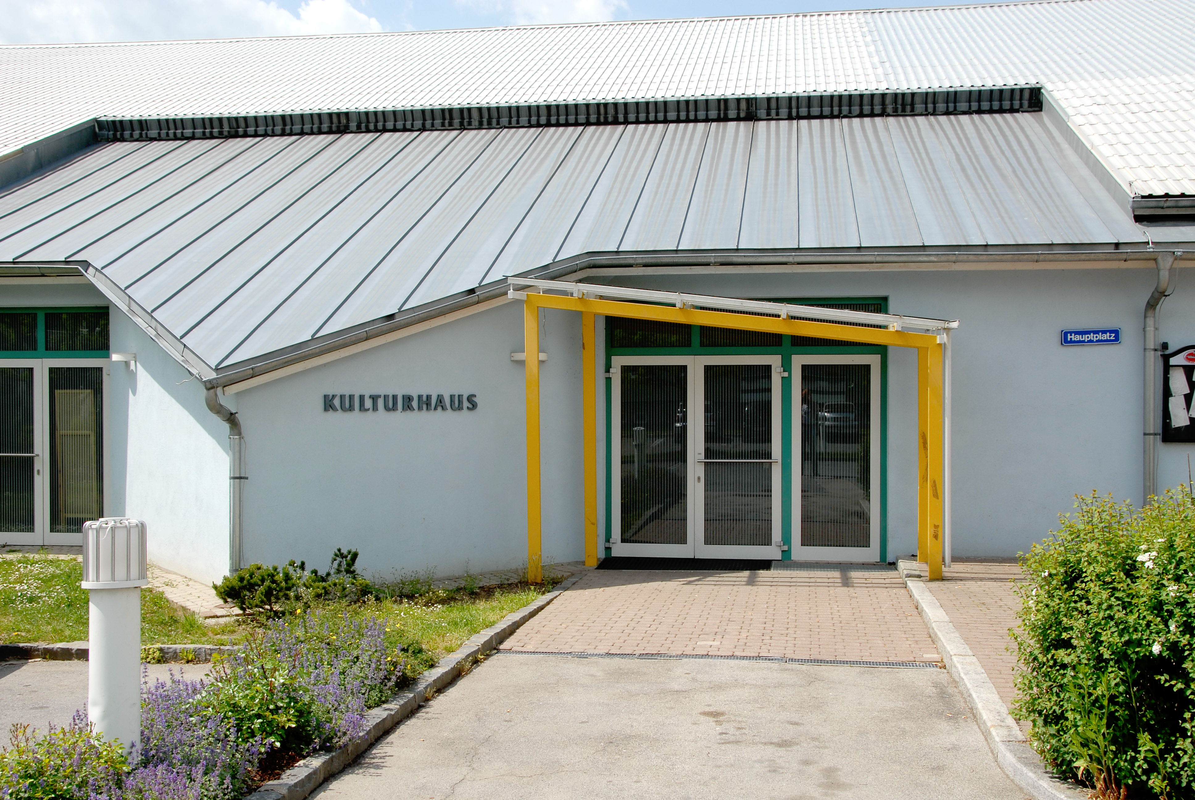 Forcing house in main square at Feistritz by the Drau, Carinthia, Austria